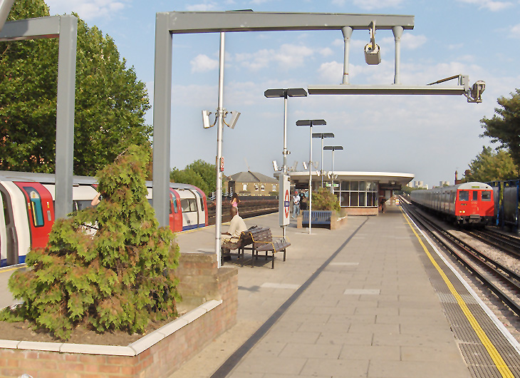 Kilburn tube station, looking east